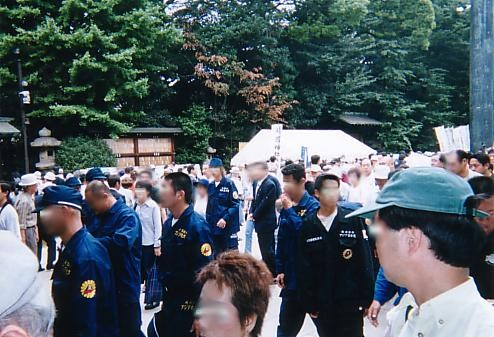 Asia Seinen To(Asia Youth Party, It is a Japanese ultra-right organization.) activists